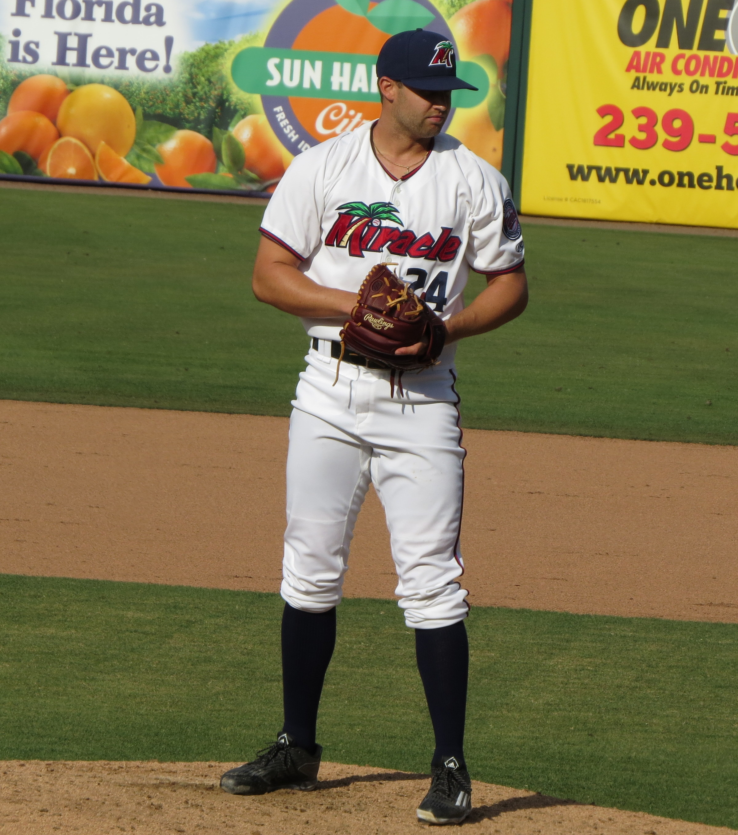 Bard on the mound